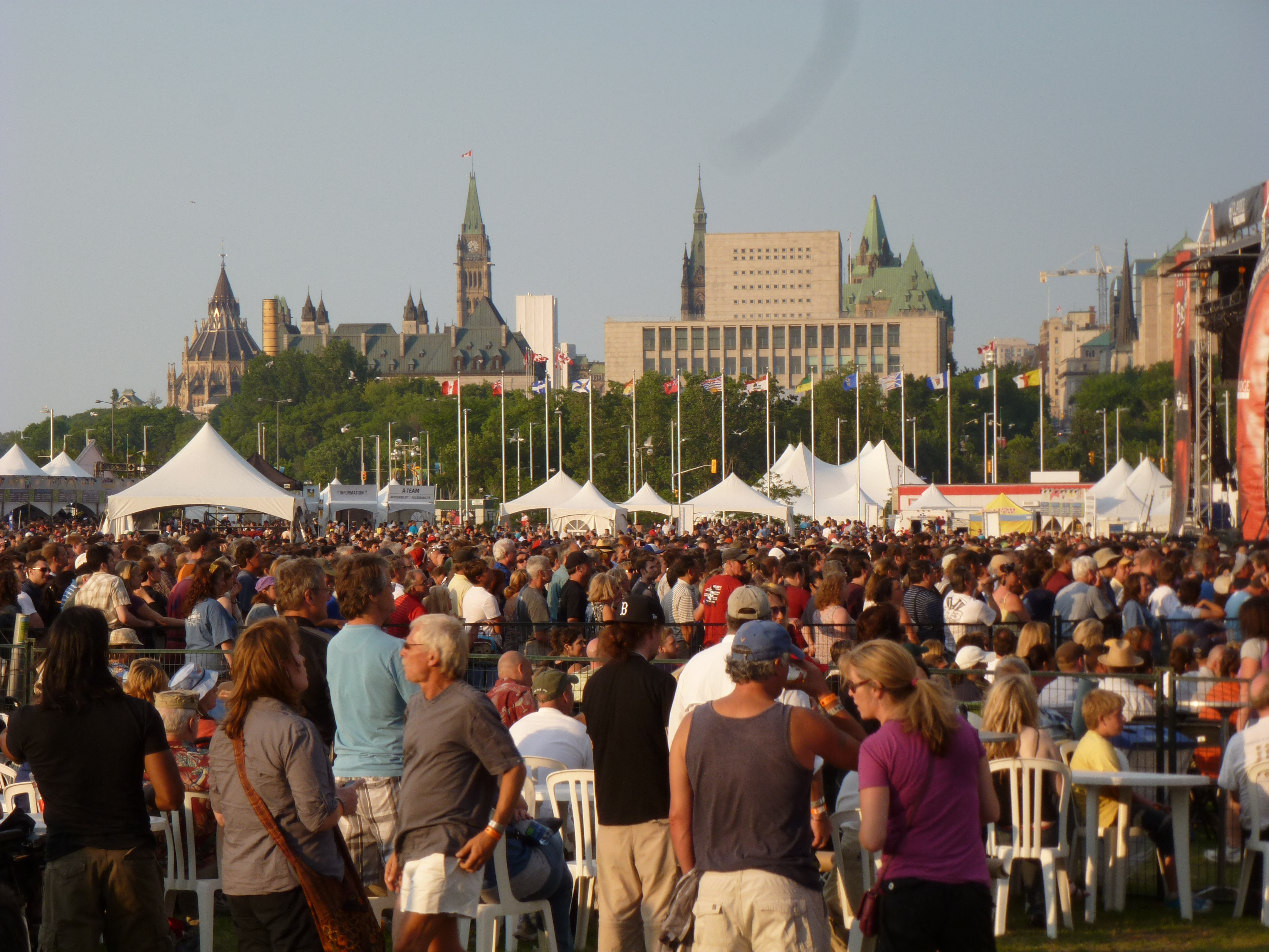 Crowds for Mr. Lewis